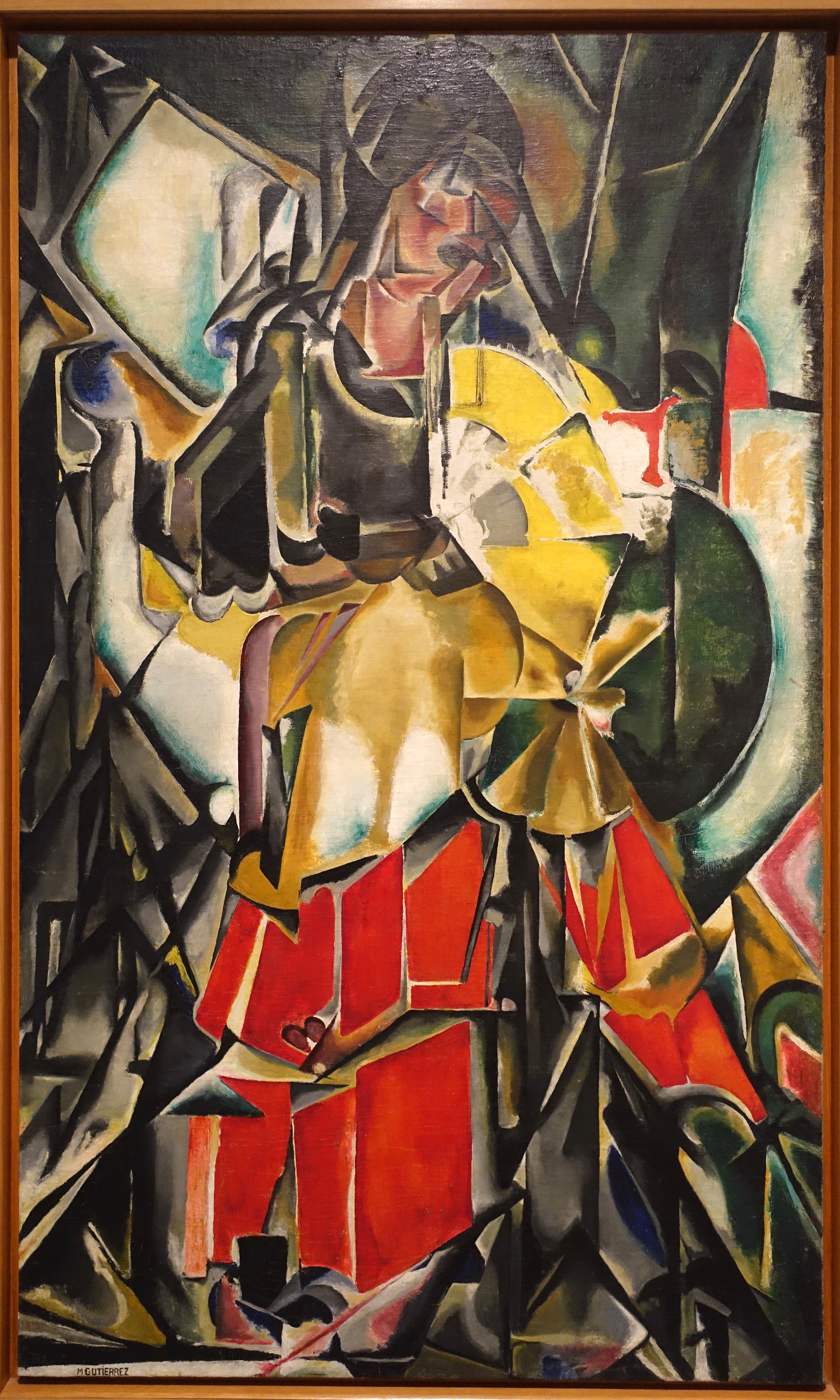 Woman with a Fan